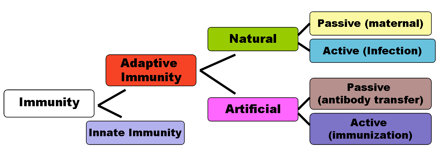 Flow chart diagram depicting the divisions of Immunity Natural immunity occurs through contact with a disease causing agent, when the contact was not deliberate, where as artificial immunity develops only through deliberate actions of exposure. Both natural and artificial immunity can be further subdivided, depending on the amount of time the protection lasts. Passive immunity is short lived, and usually lasts only a few months, whereas protection via active immunity lasts much longer, and is sometimes life-long.